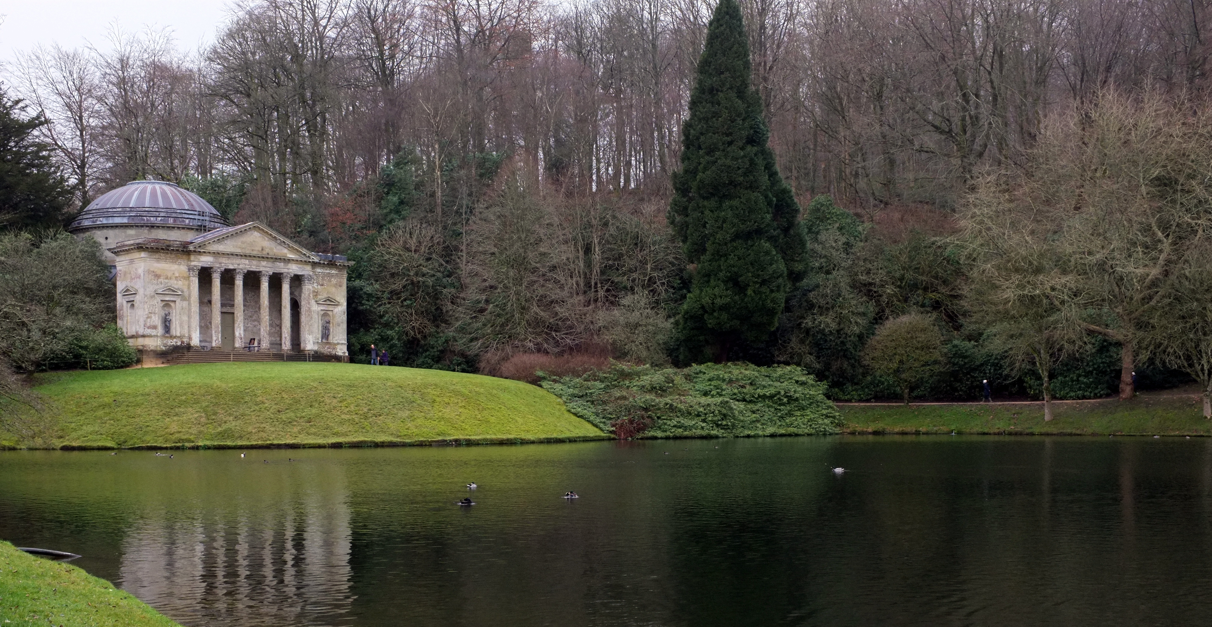 Pantheon